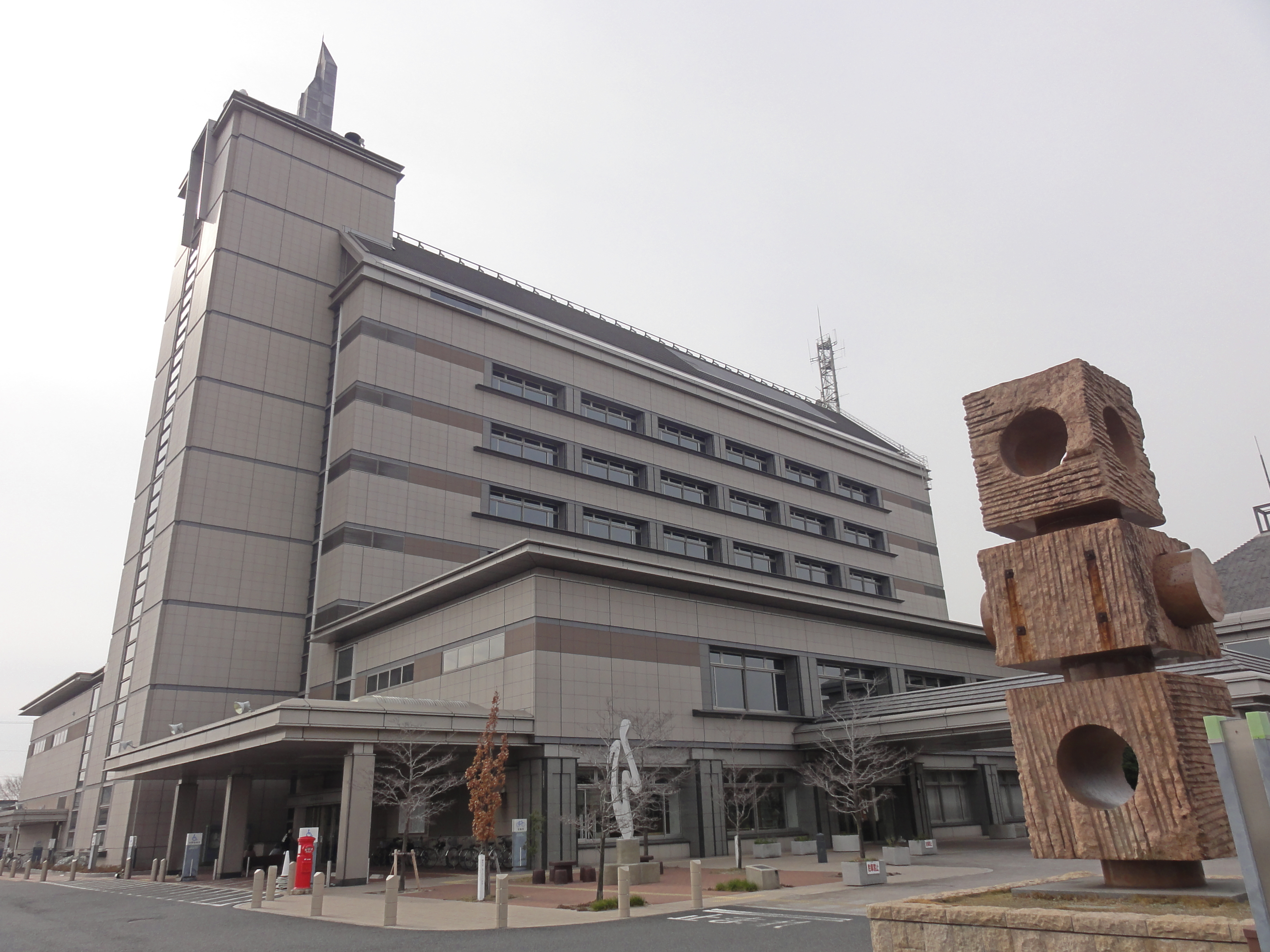 Hekinan city office,Aichi prefecture,Japan